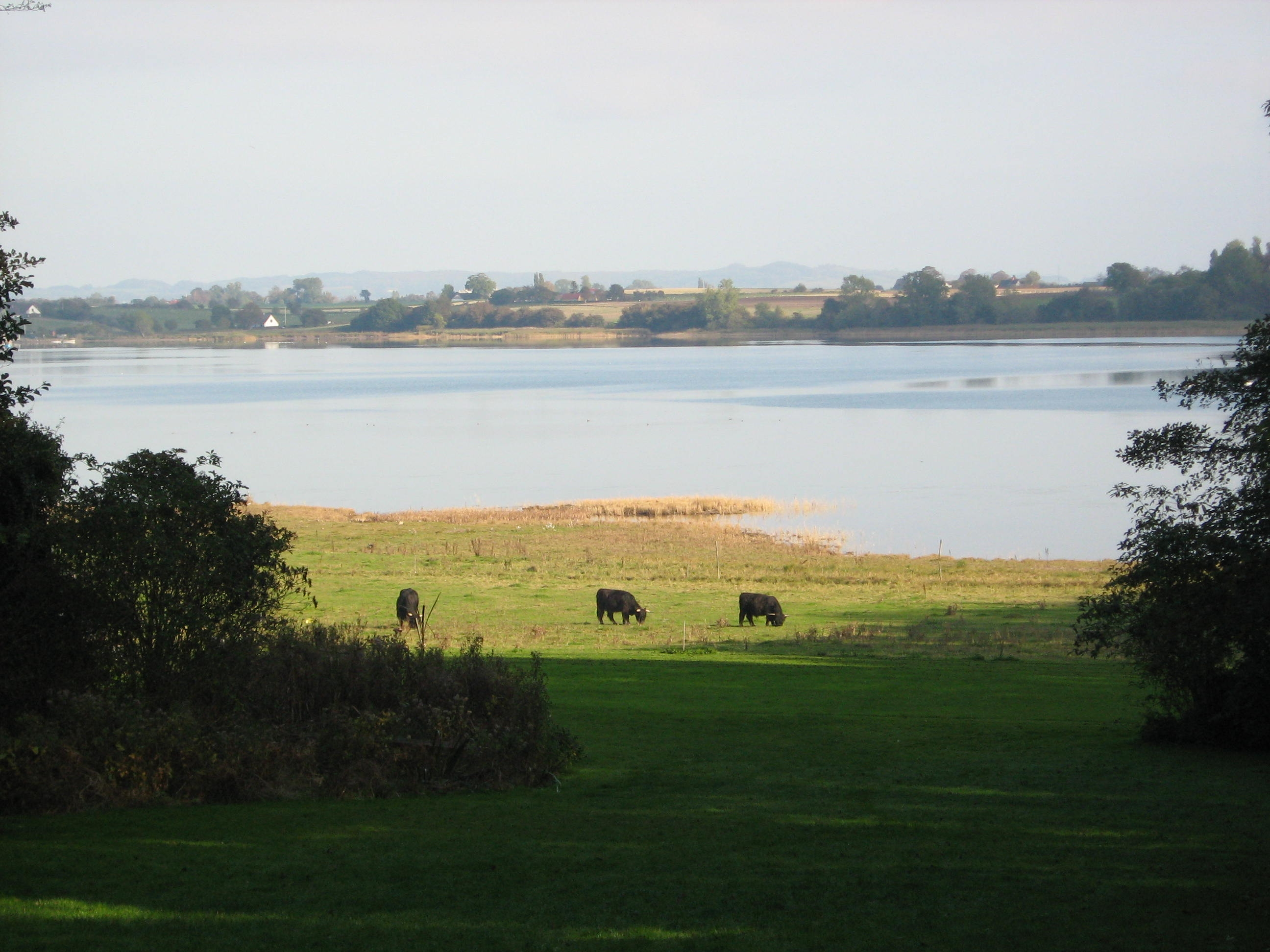 Rødkilde Højskole, Møn, Denmark. View of the lake (Stege Nor) from the school.